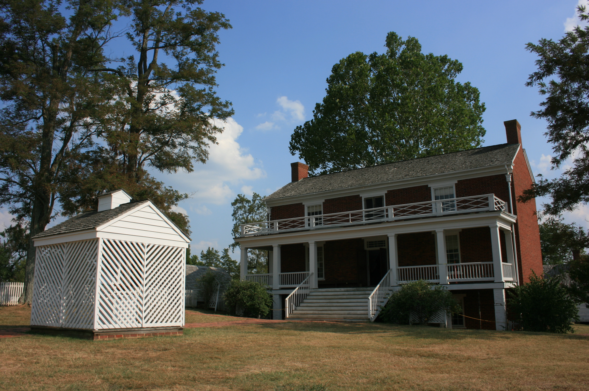 Photograph of the (reconstructed) McLean House in the Appomattox Court House National Historical Park, east of Appomattox, Virginia, USA.